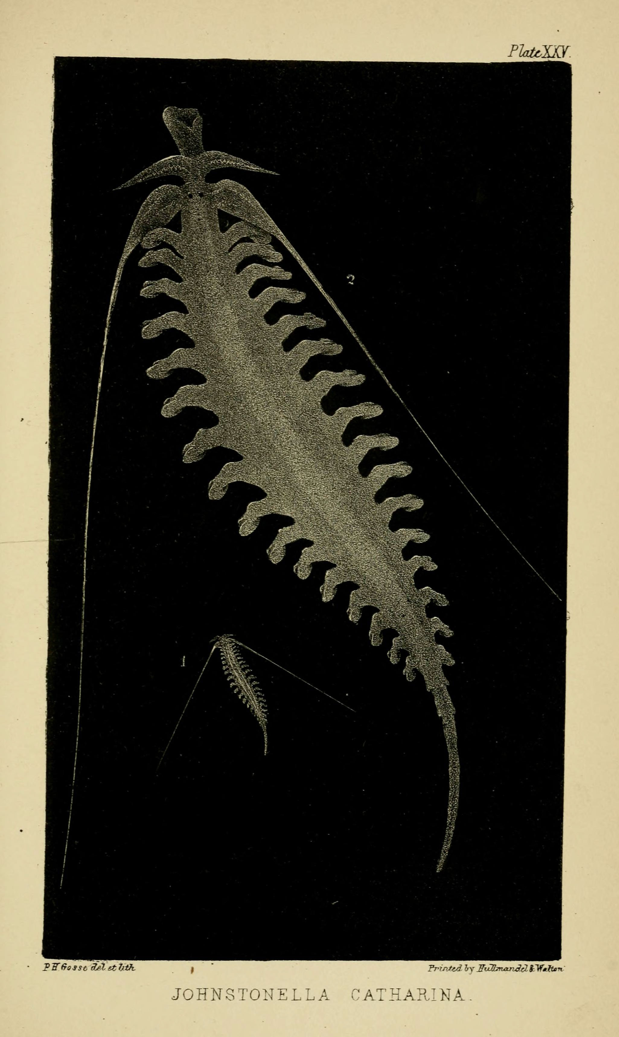 Johnstonella catharina from "A naturalist's rambles on the Devonshire coast" by P H Gosse London:John Van Voorst,1853.